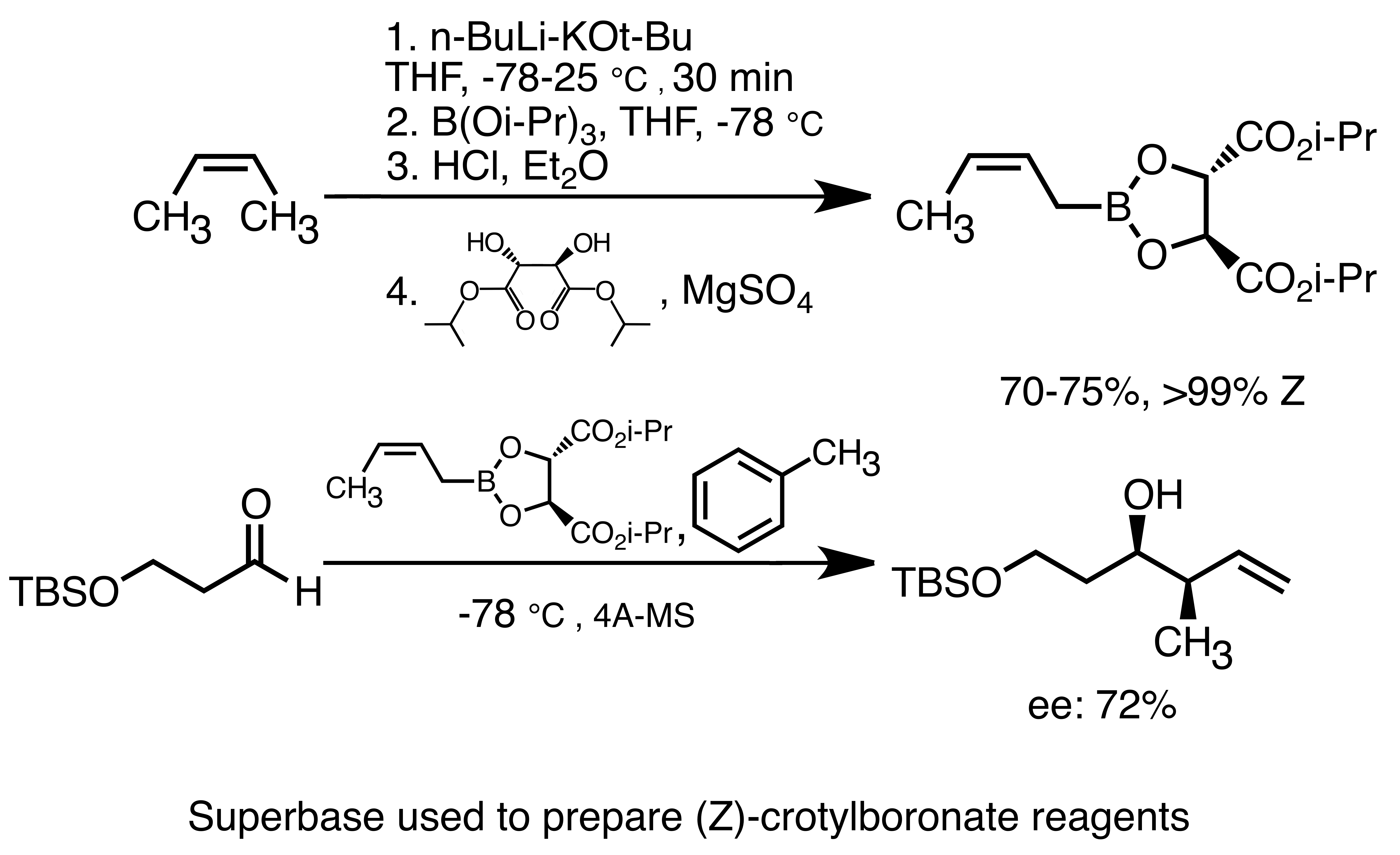 Superbase